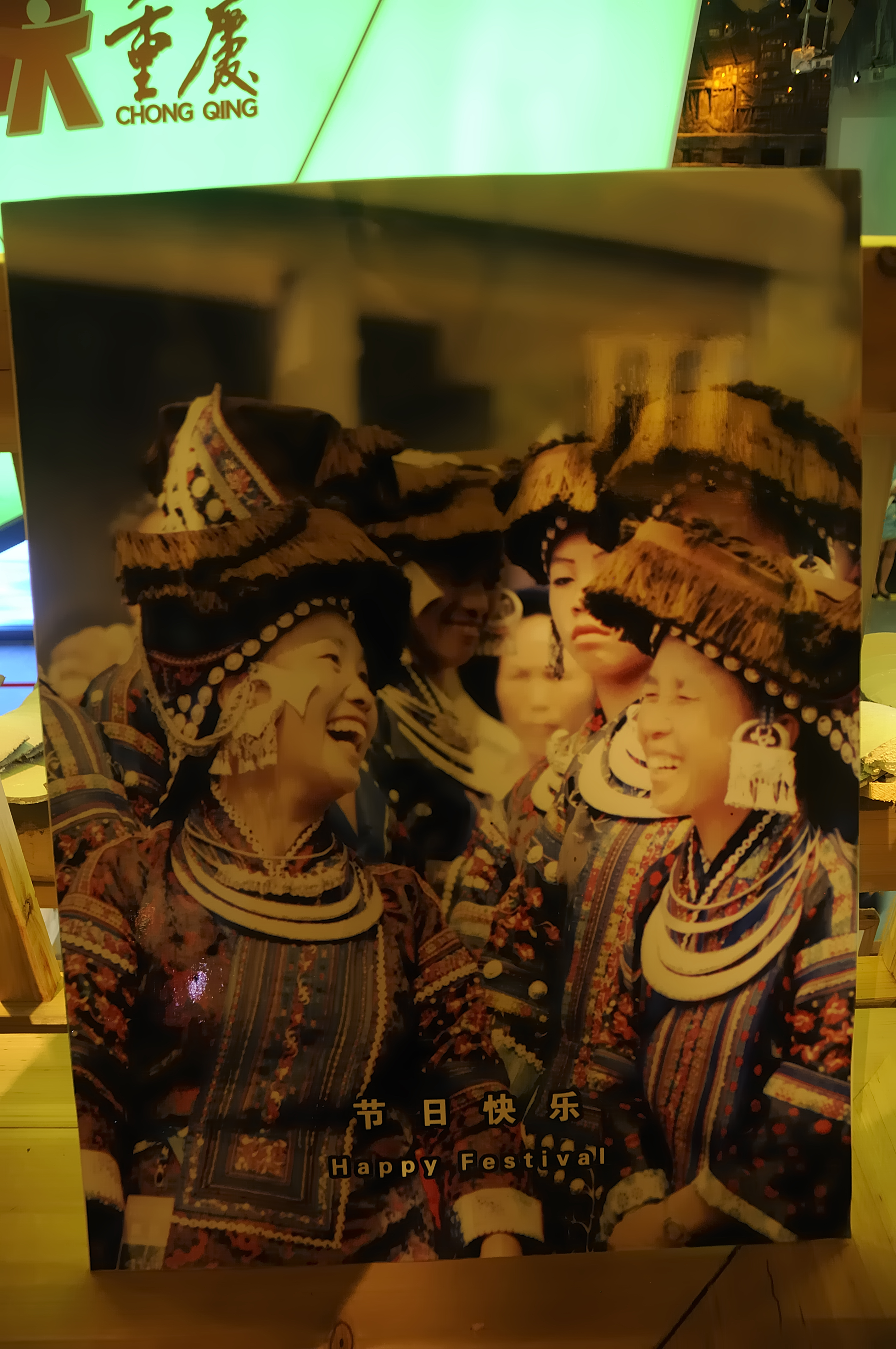 Traditional dress of Hmong people. Photo taken at Guizhou Pavillion, Shanghai Expo 2010